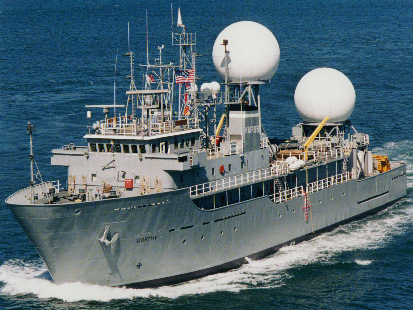 Kwajalein Mobile Range Safety System (KMRSS), USAS WORTHY, a converted T-AGOS used for Range Safety at the Reagan Test Site, Kwajalein.